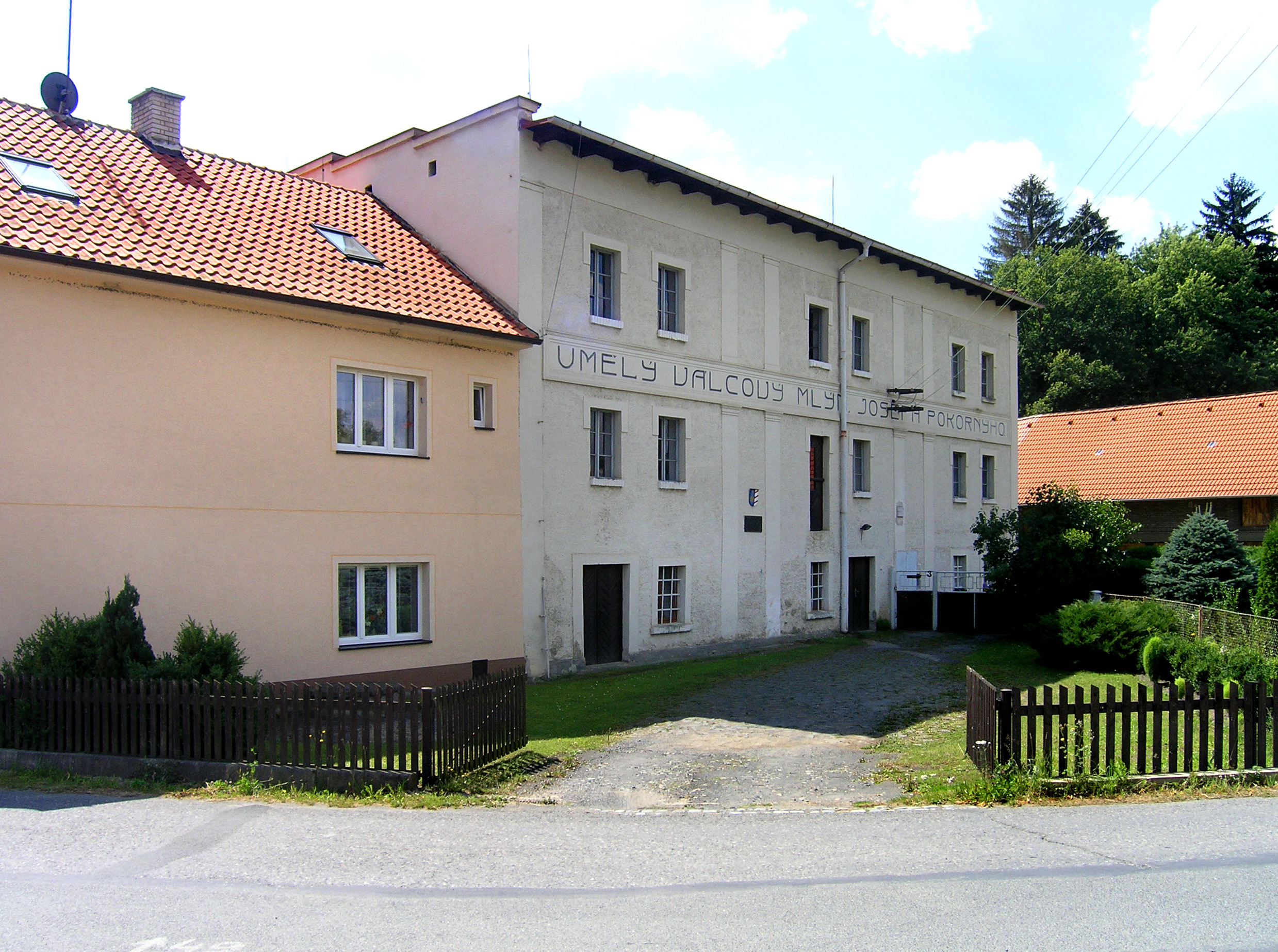 Dolní Bezděkov, part od Bratronice village, Czech Republic